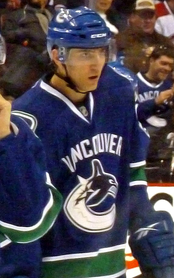 Vancouver Canucks defenceman Chris Tanev during a game against the Colorado Avalanche on March 16, 2011.